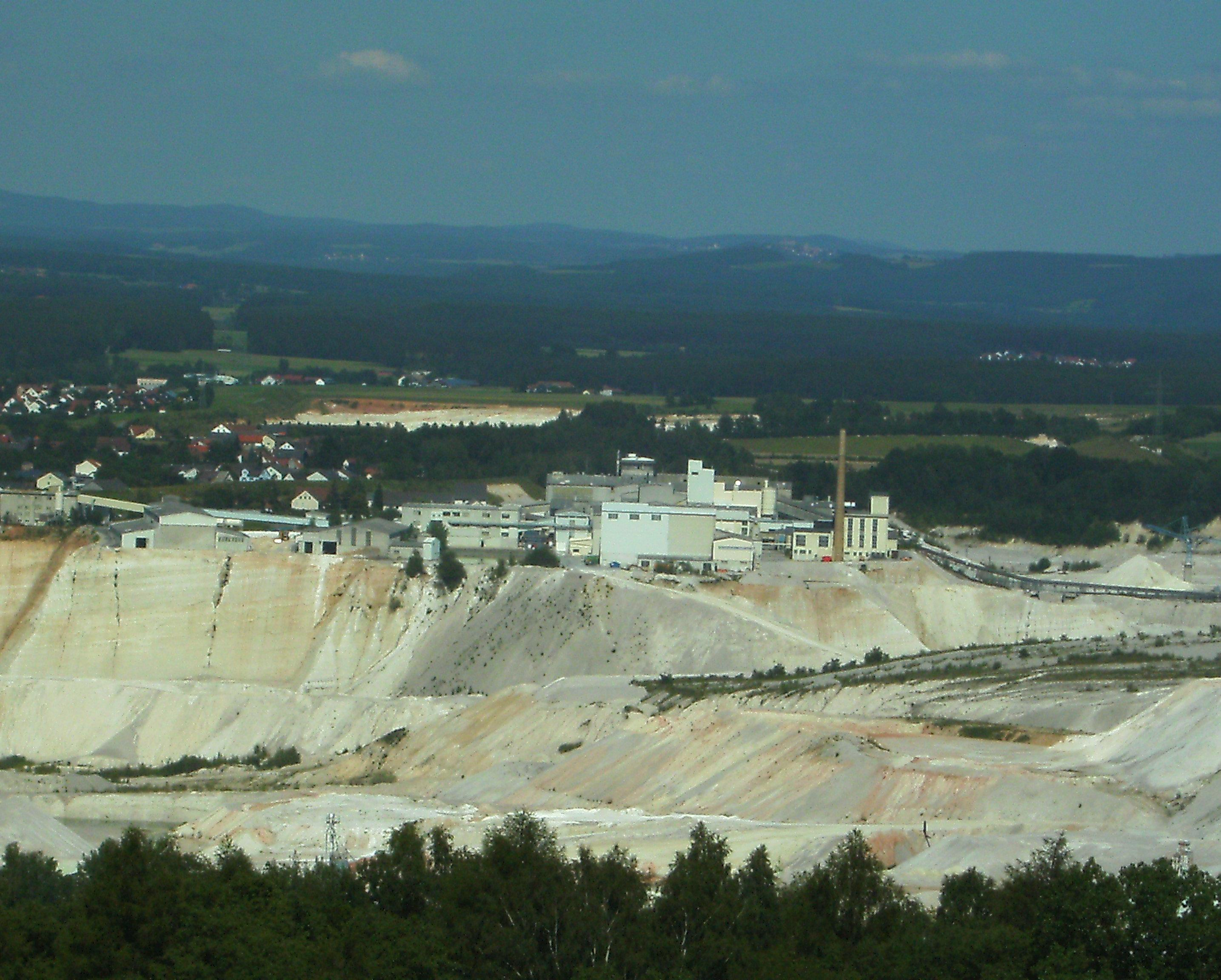 View from Monte Kaolino down to Hirschau